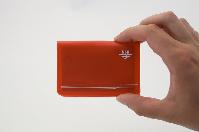 Author: Ti.mo Source: Flickr URL: (Flickr) Time taken: June 25, 2009 Uploader: Fiskepinner Description: Simple picture showing the NSB-cover with a Flexus card inside of it. Uploaded on: 01.12.2010